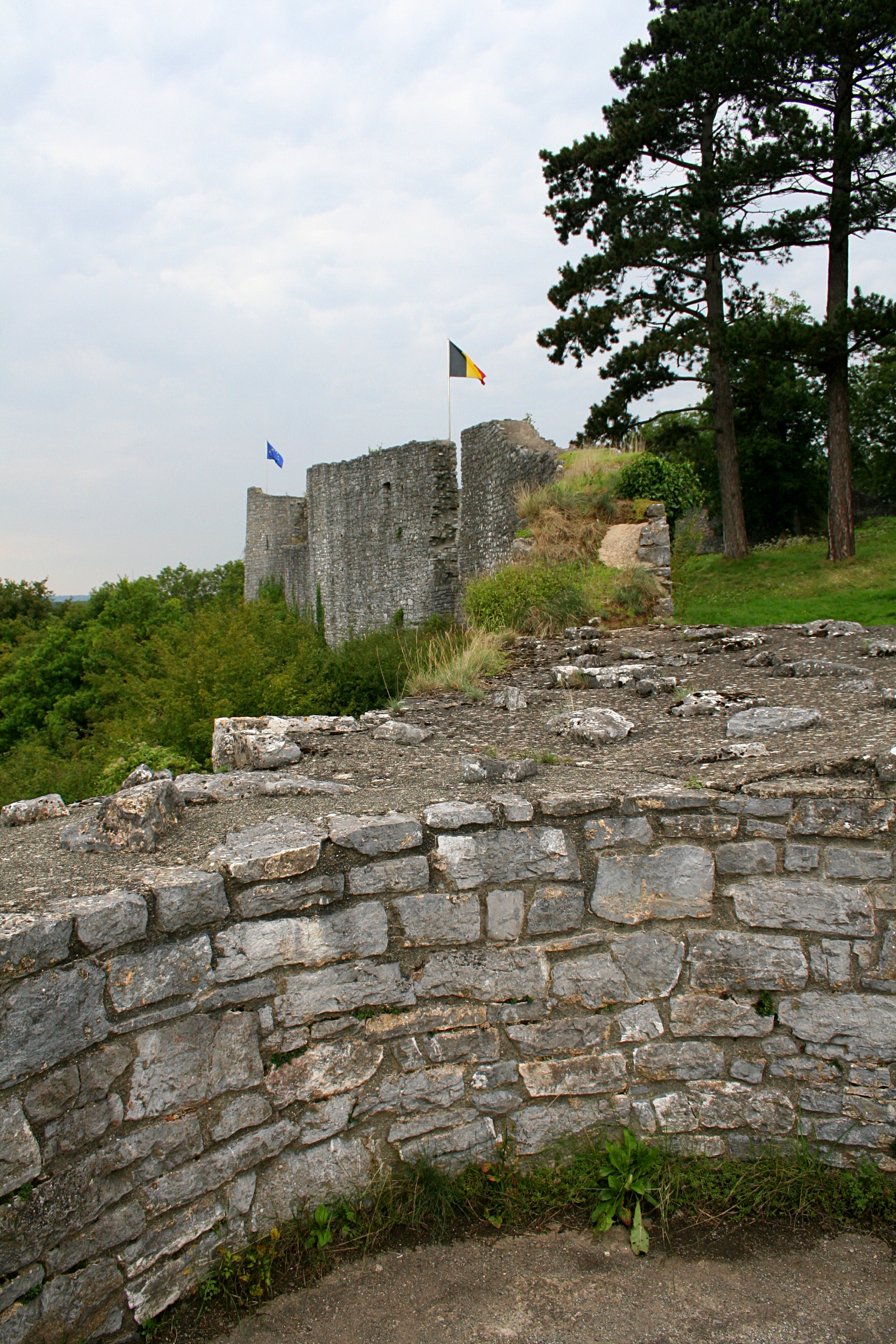 Évrehailles (Belgium), the ruins of the Poilvache Castle (XIII-XVth centuries).